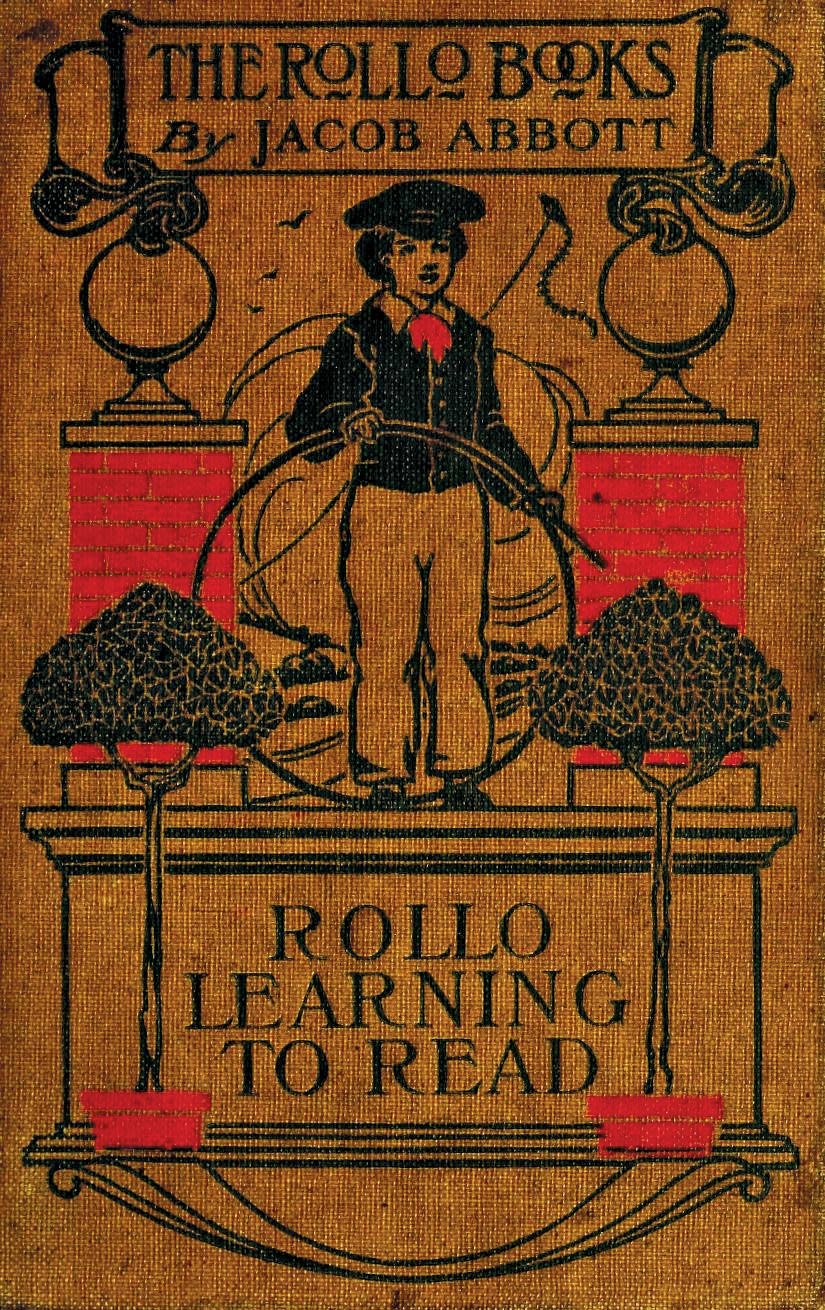 Book cover of an 1855 edition of "Rollo Learning to Read" by Jacob Abbott.